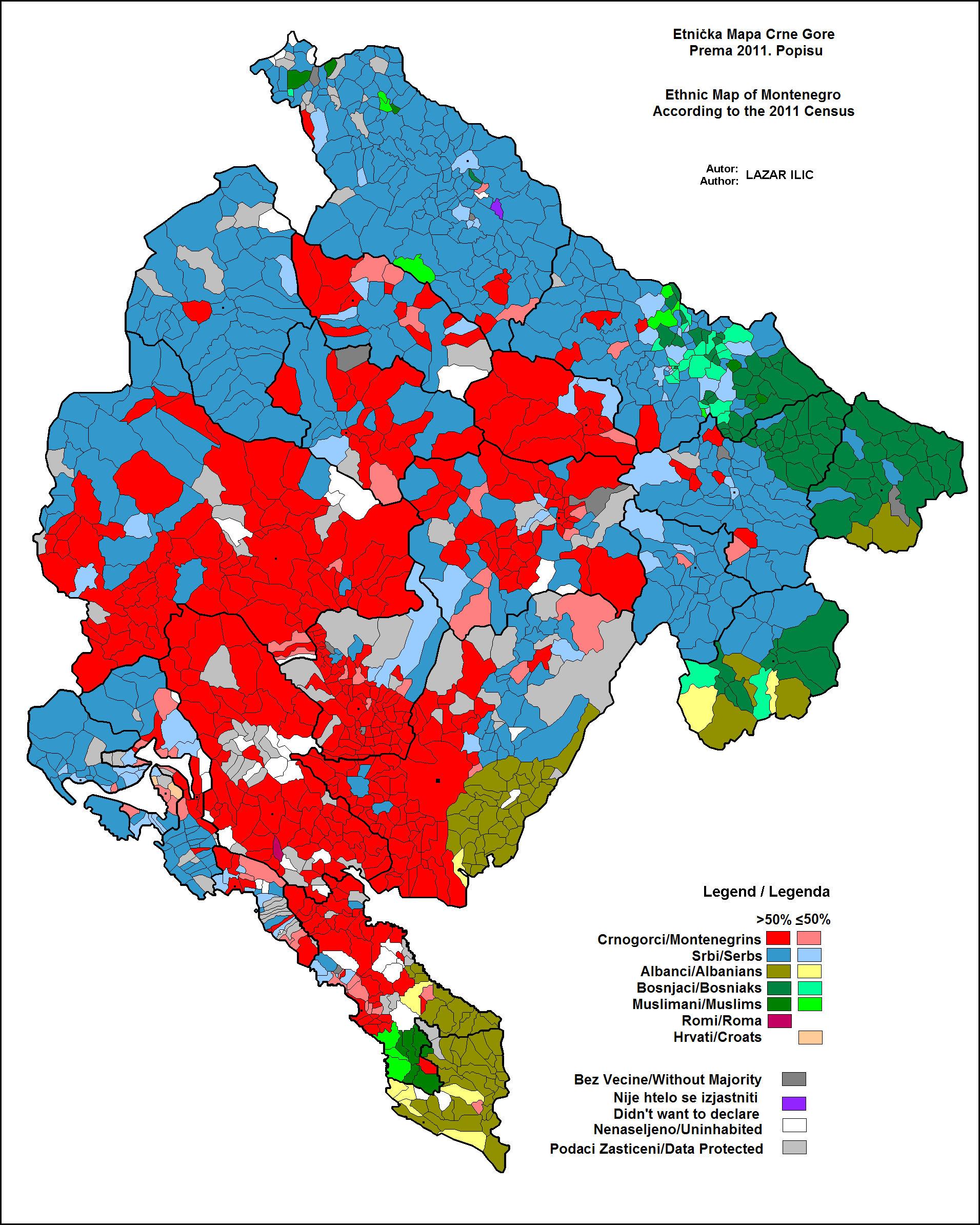 This is an Ethnic Map of Montenegro, according to the 2011 population census. It is however not yet finished, though it will be soon.